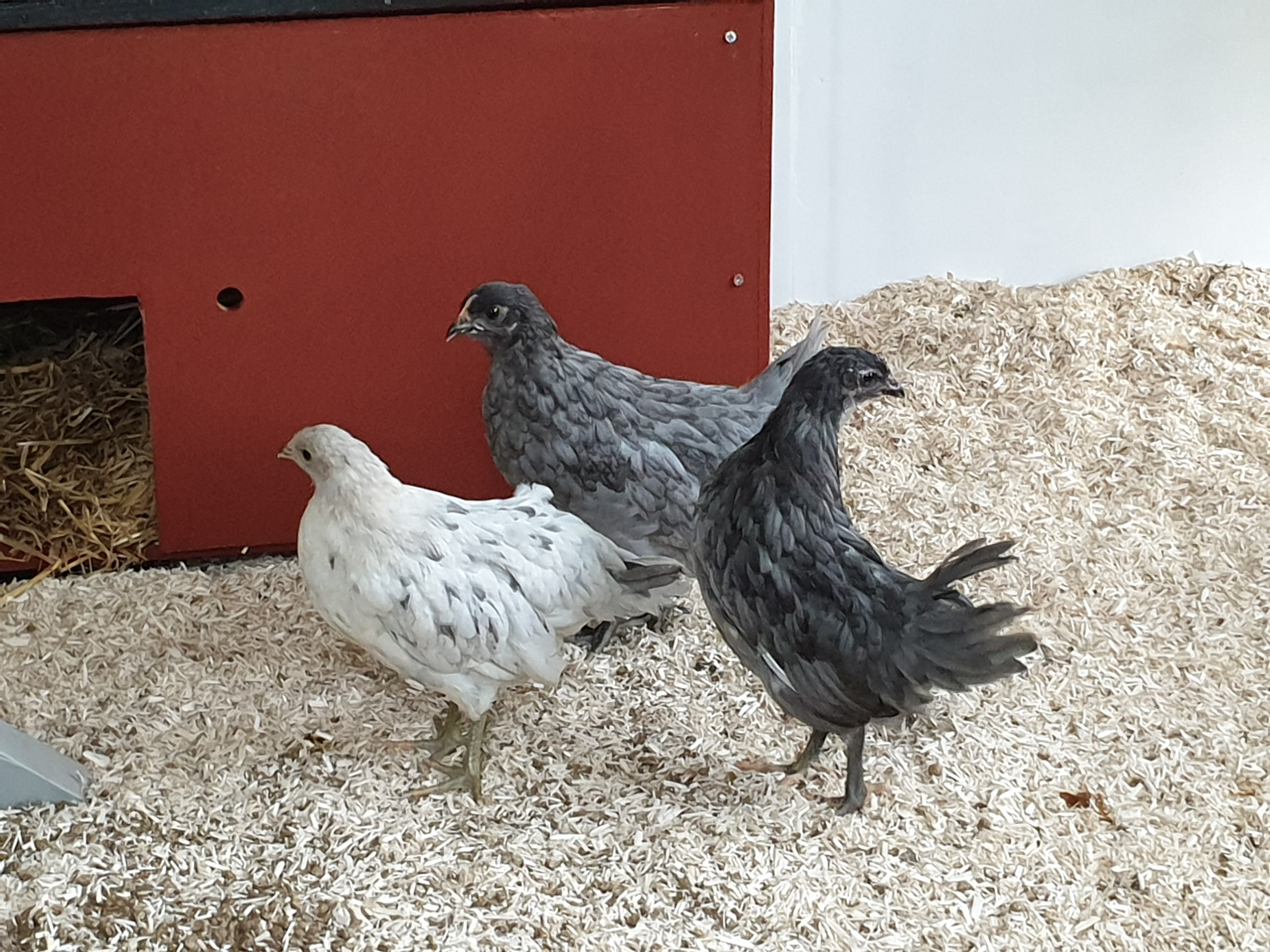 Silverudd blue young hens: dark blue, pale blue and splashed.